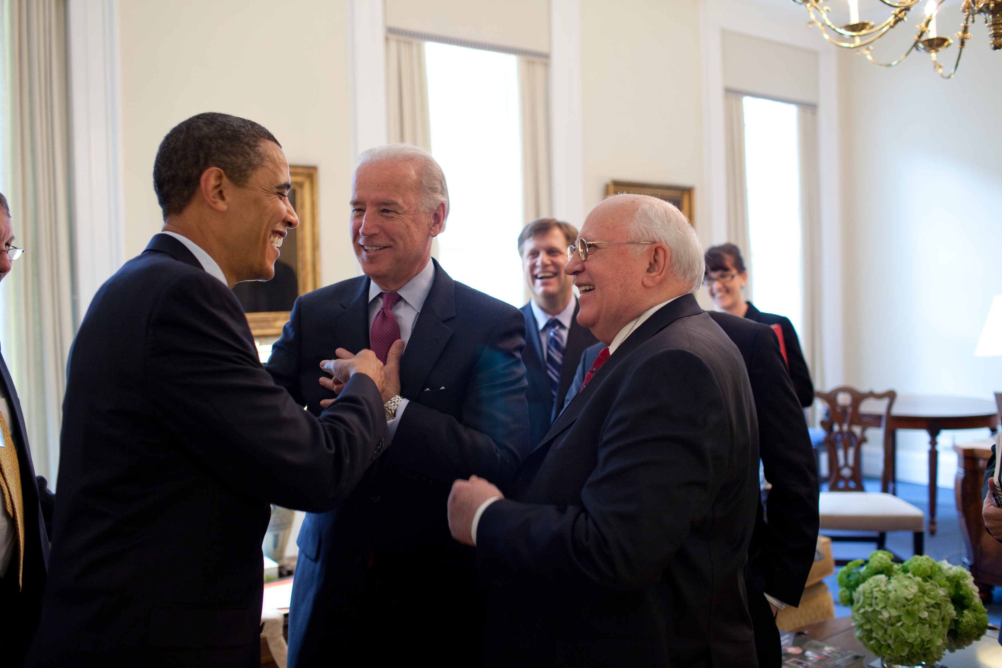 President Barack Obama drops by VP Joe Biden's meeting with former Soviet Union President Mikhail Gorbachev in the Vice President's Office, West Wing 3/20/09.